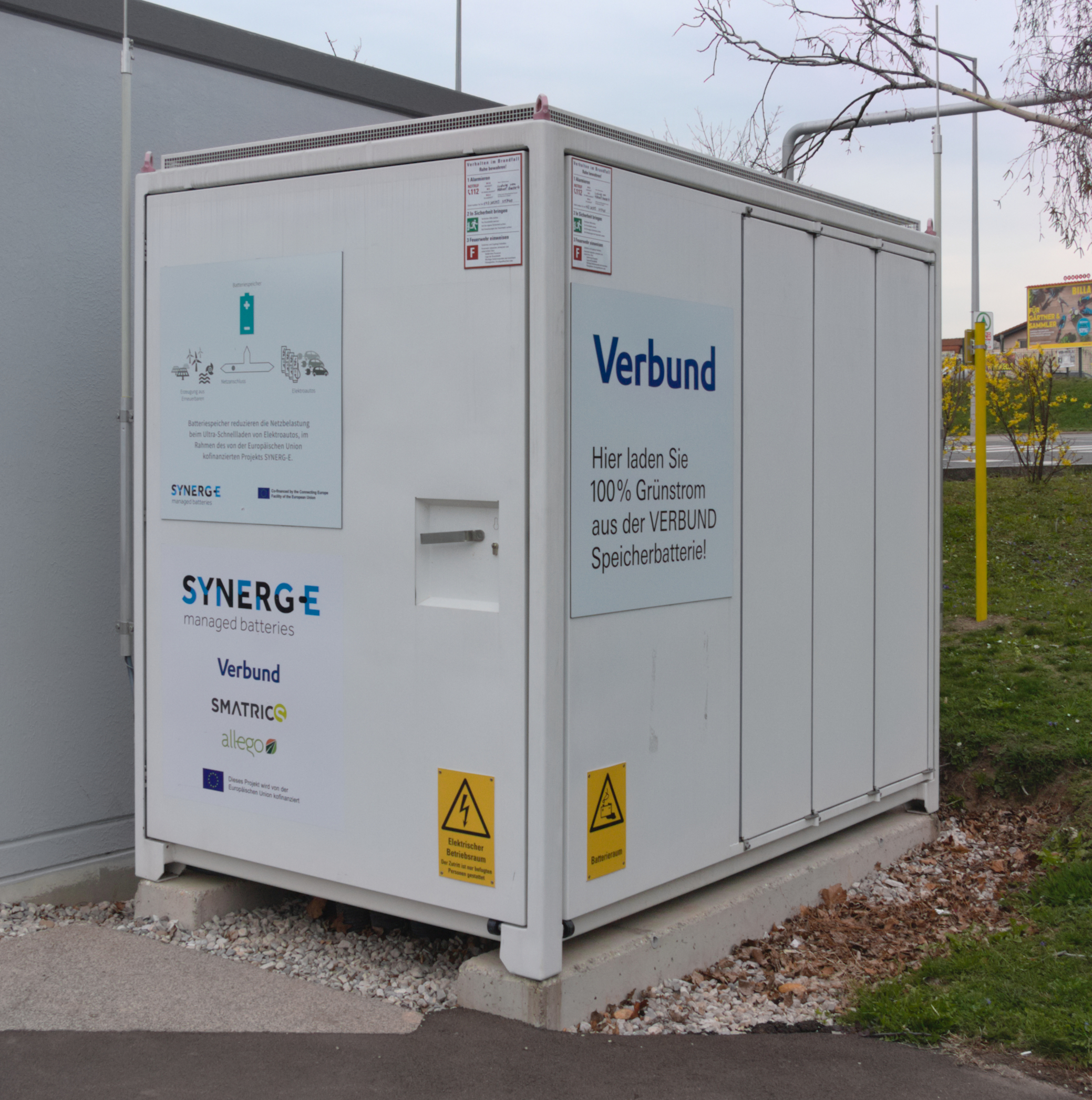 The battery container of the high performance charging station near Verteilerkreis Favoriten at Ludwig-von-Höhnel-Gasse 2, Vienna, Austria